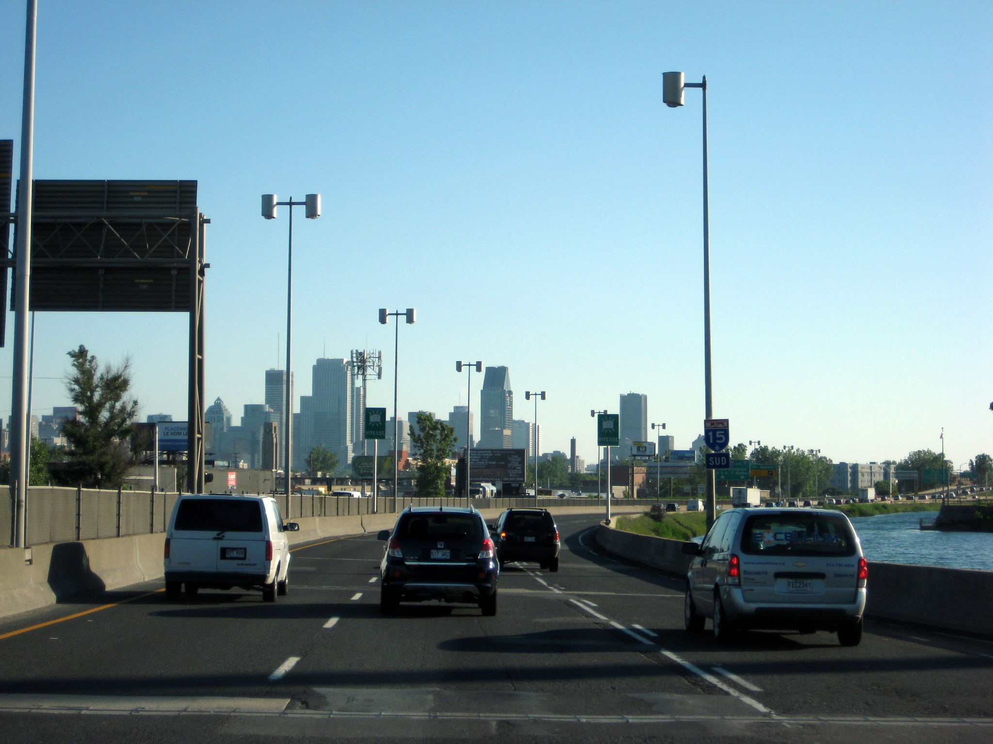 Autoroute 15/20 southbound, km 61 in Montréal along Aqueduc de Montréal canal.